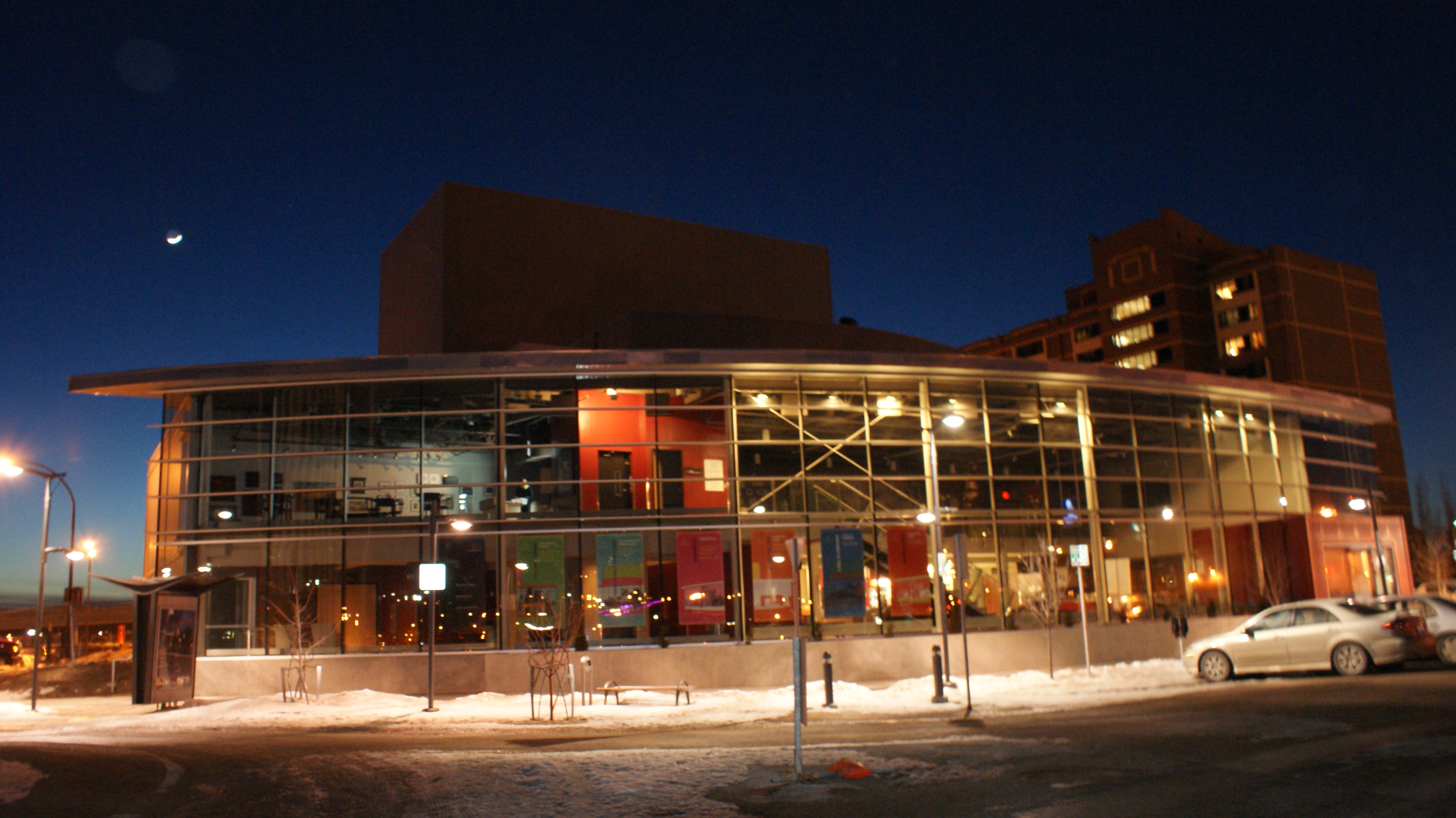 Persephone Theatre Saskatoon Saskatchewan Canada. This photo was taken minutes before earth hour 2009, interior lights are still "on". The lights were turned off for earth hour in the "after" picture